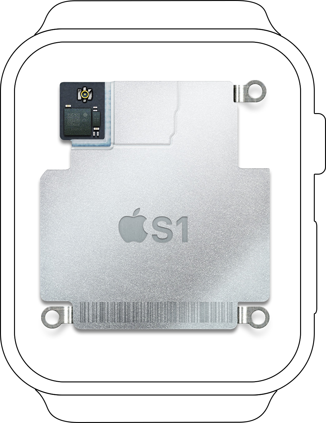 An illustration of Apple's A1 integrated computer placed in the Apple Watch for size comparisons. Inspiration for this picture comes from Apple's promo video for the Apple Watch.